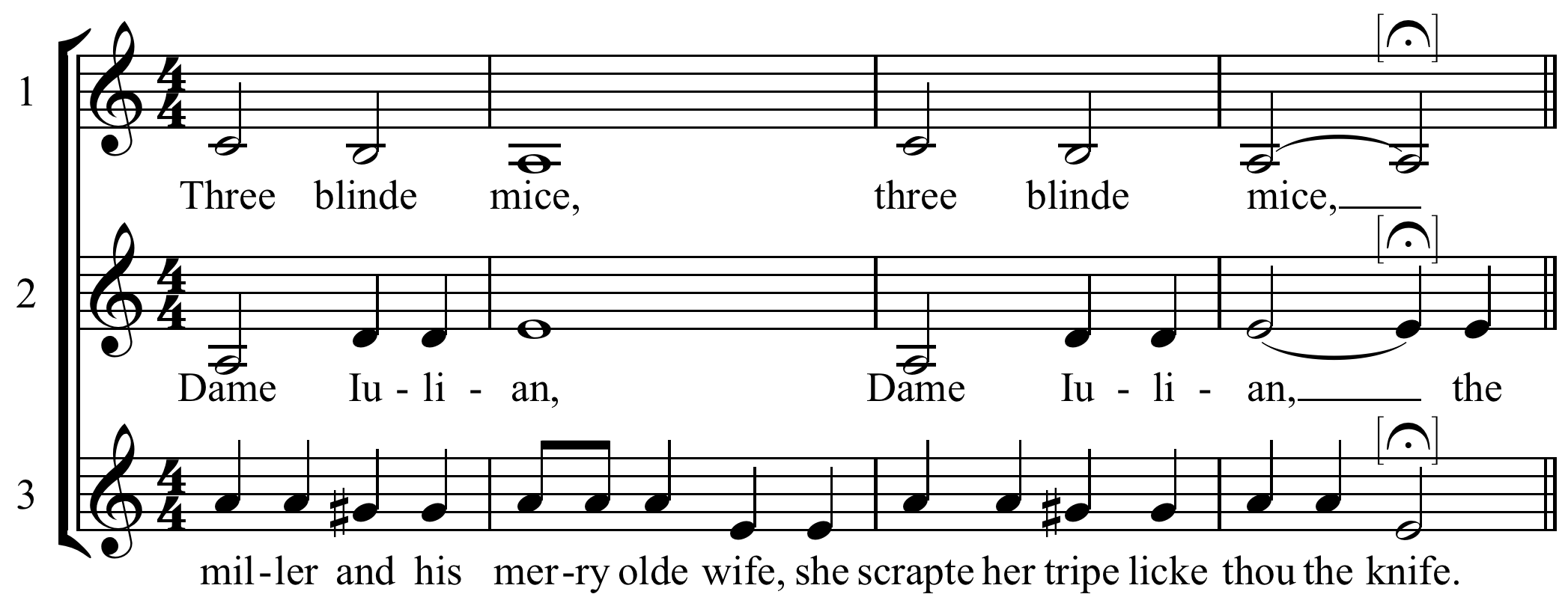 "Three Blinde Mice", three voice round from Ranvescroft's Deuteromelia 13 (1609).